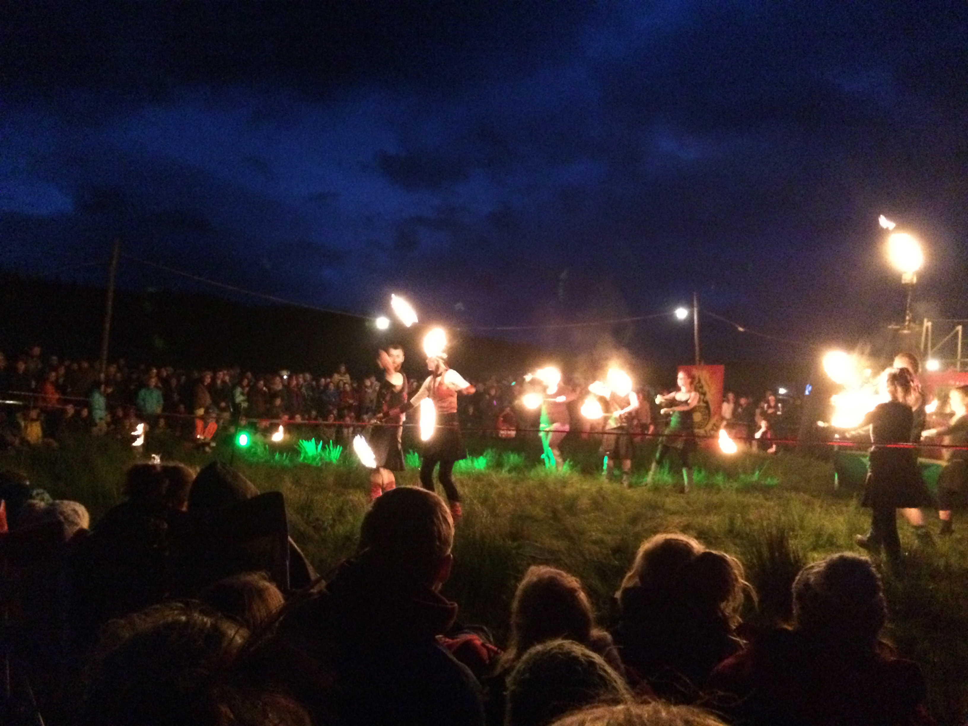 A fire performance taking place at Knockengorroch Festival in Scotland, 2015.